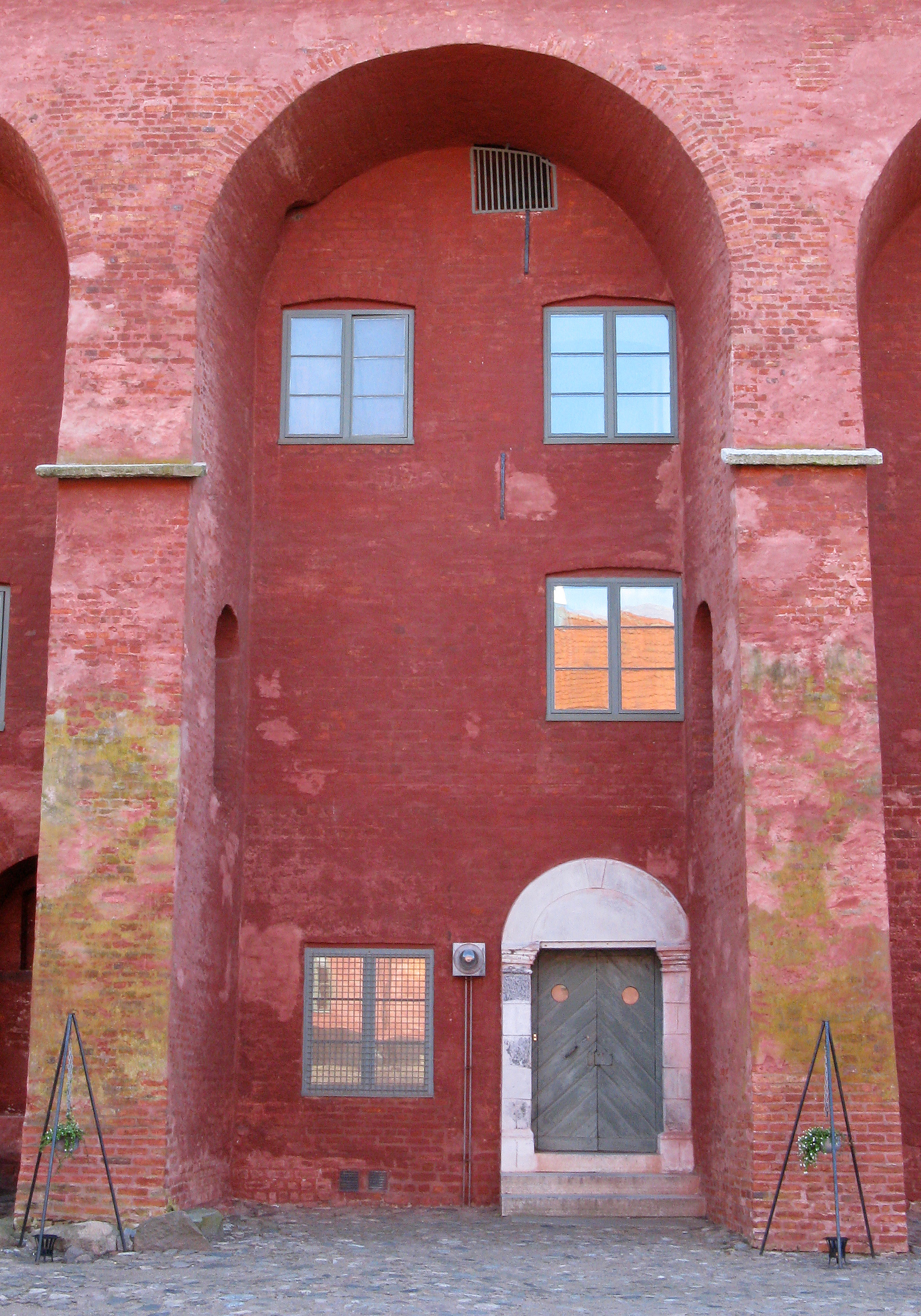 Arched inner wall of the 16th century Citadellet fortification, Landskrona, Sweden.